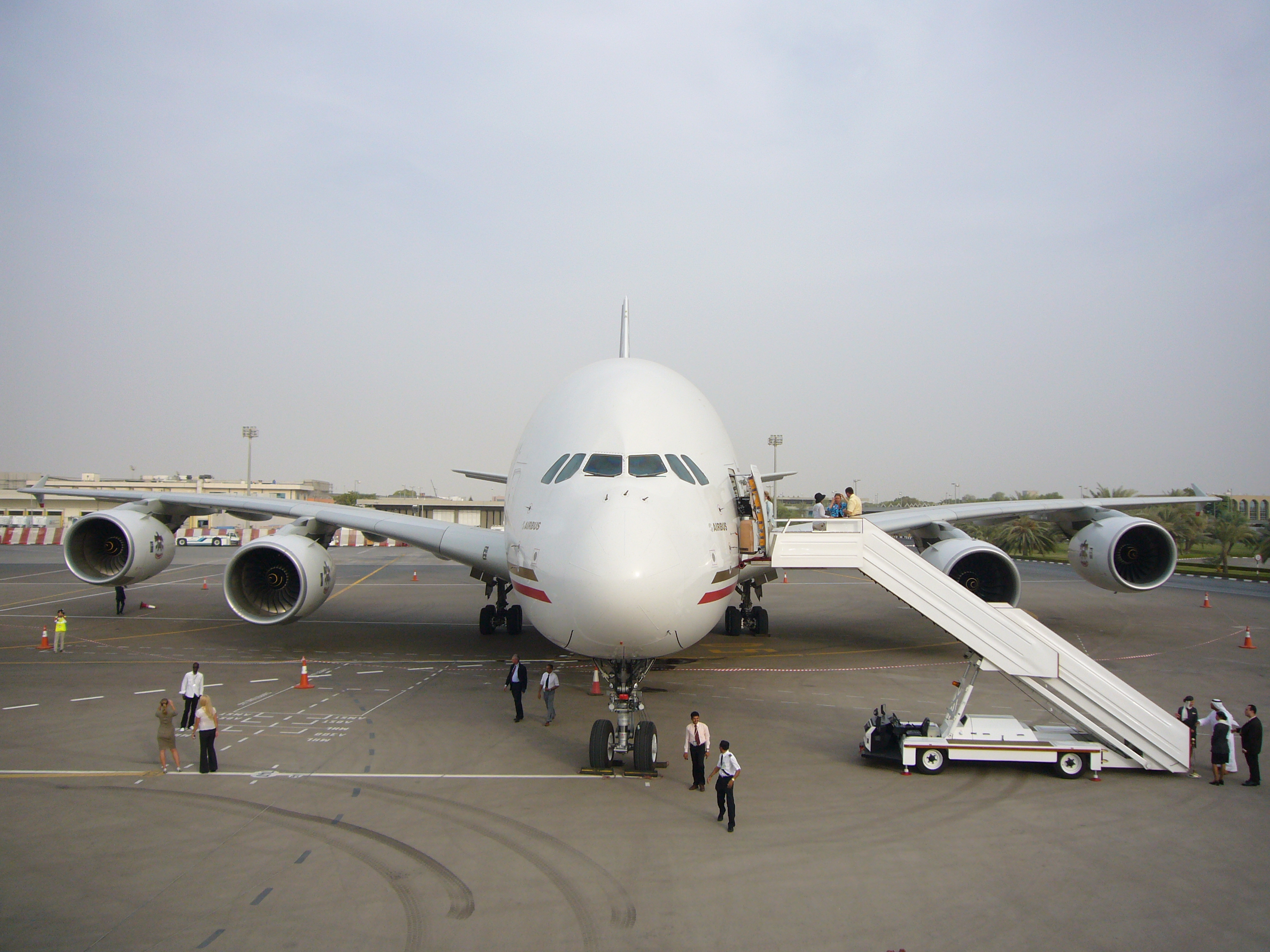 Airbus A380-800 painted in Etihad livery at Abu Dhabi International Airport during test flight.